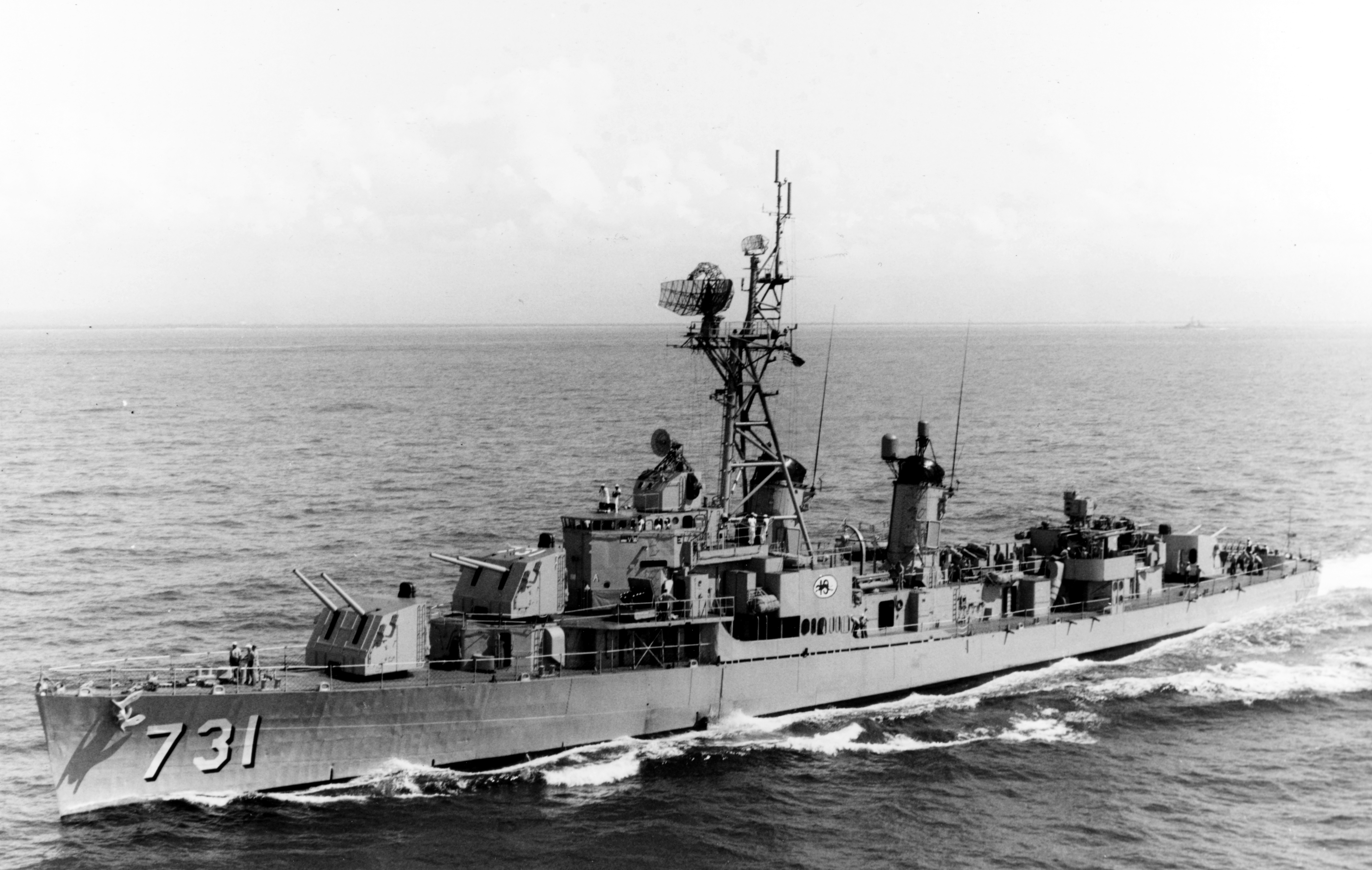 The U.S. Navy destroyer USS Maddox (DD-731) operating off Oahu, Hawaii (USA), on 21 March 1964. Note that the ship had recently been refitted with an SPS-40 air search radar.